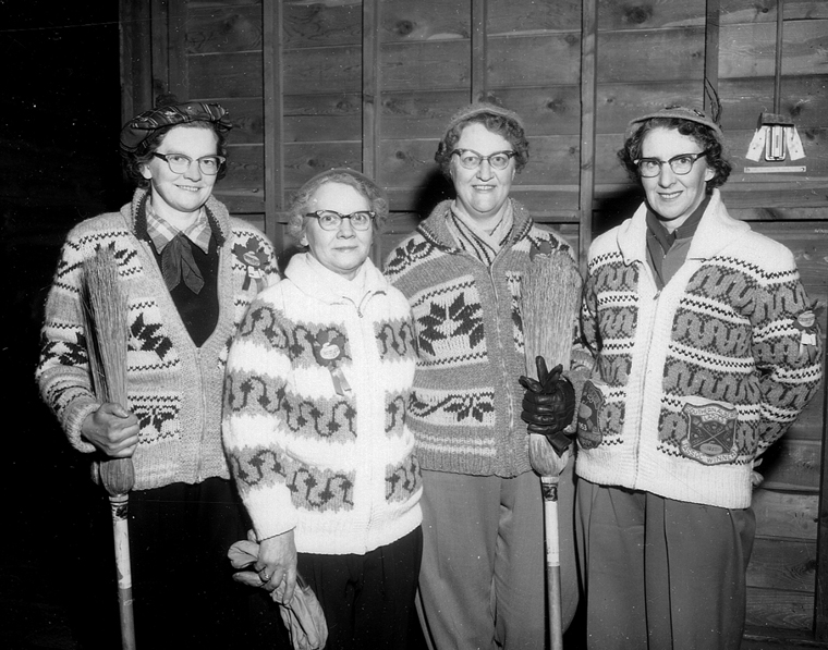 January 26, 1955 22.6 cm x 17.5 cm Black and white photograph To obtain high quality and larger reproductions of this image please visit the Galt Museum & Archives website: and include thIs number in your request: P19753806042